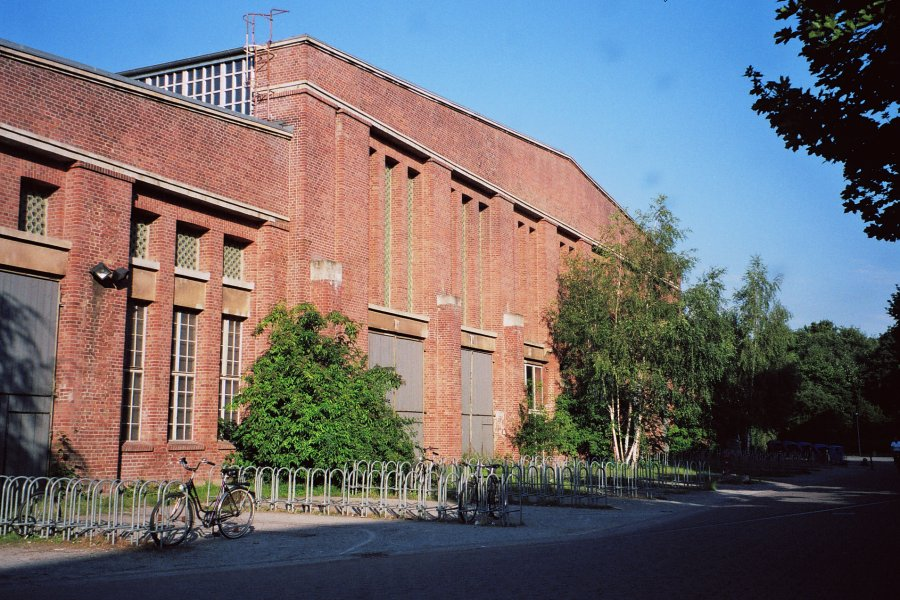 Lokhalle Goettingen - Former Workshop for Steam Locomotives, now Cinema and Multi-Purpose-Arena. North side with old gates for Locos